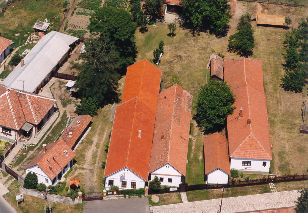 Edelény, Hungary, aerial photgraphyNépi műemlékegyüttes